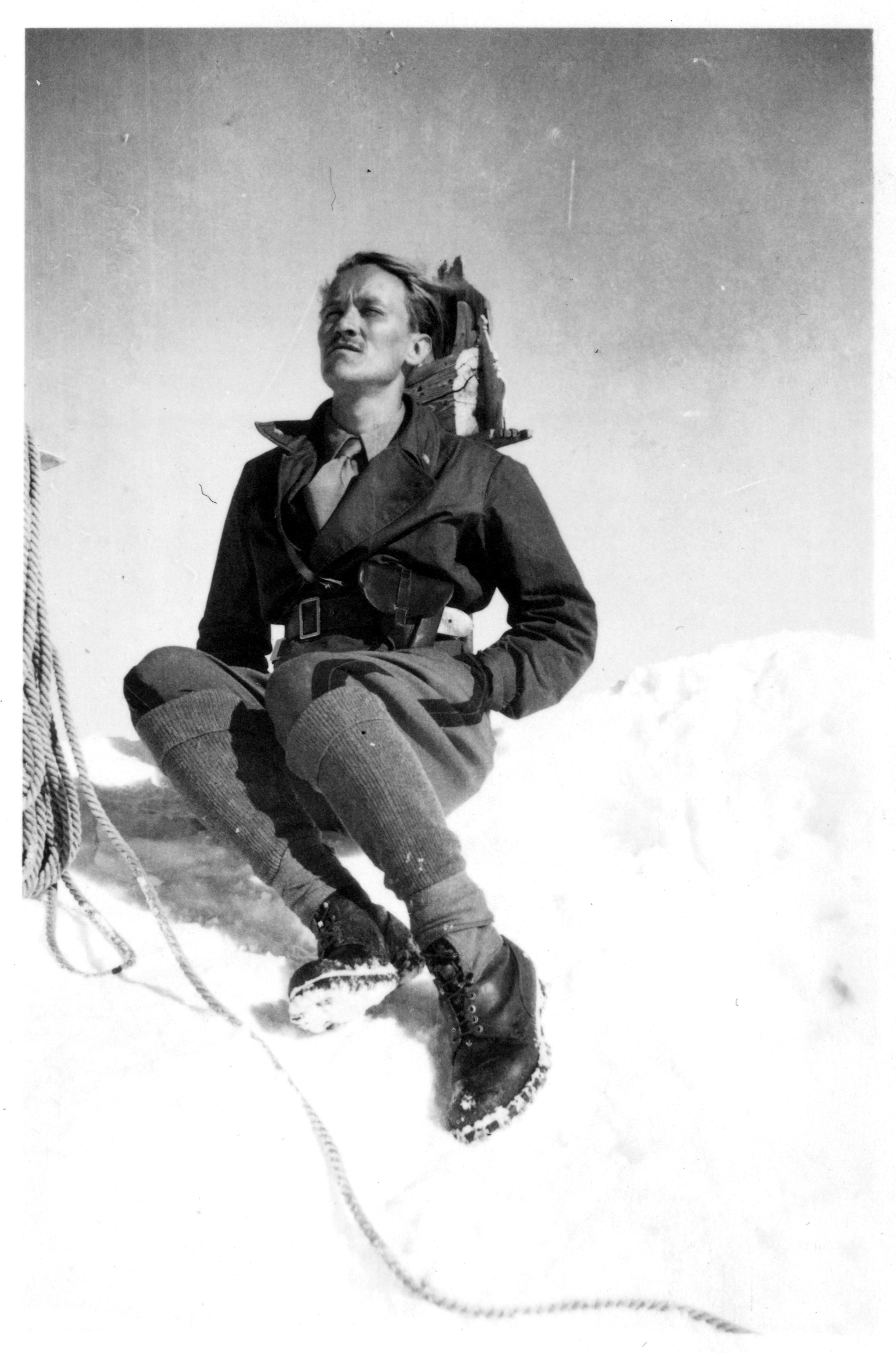 Pietro Pensa. Courtesy Archivio Pietro Pensa.